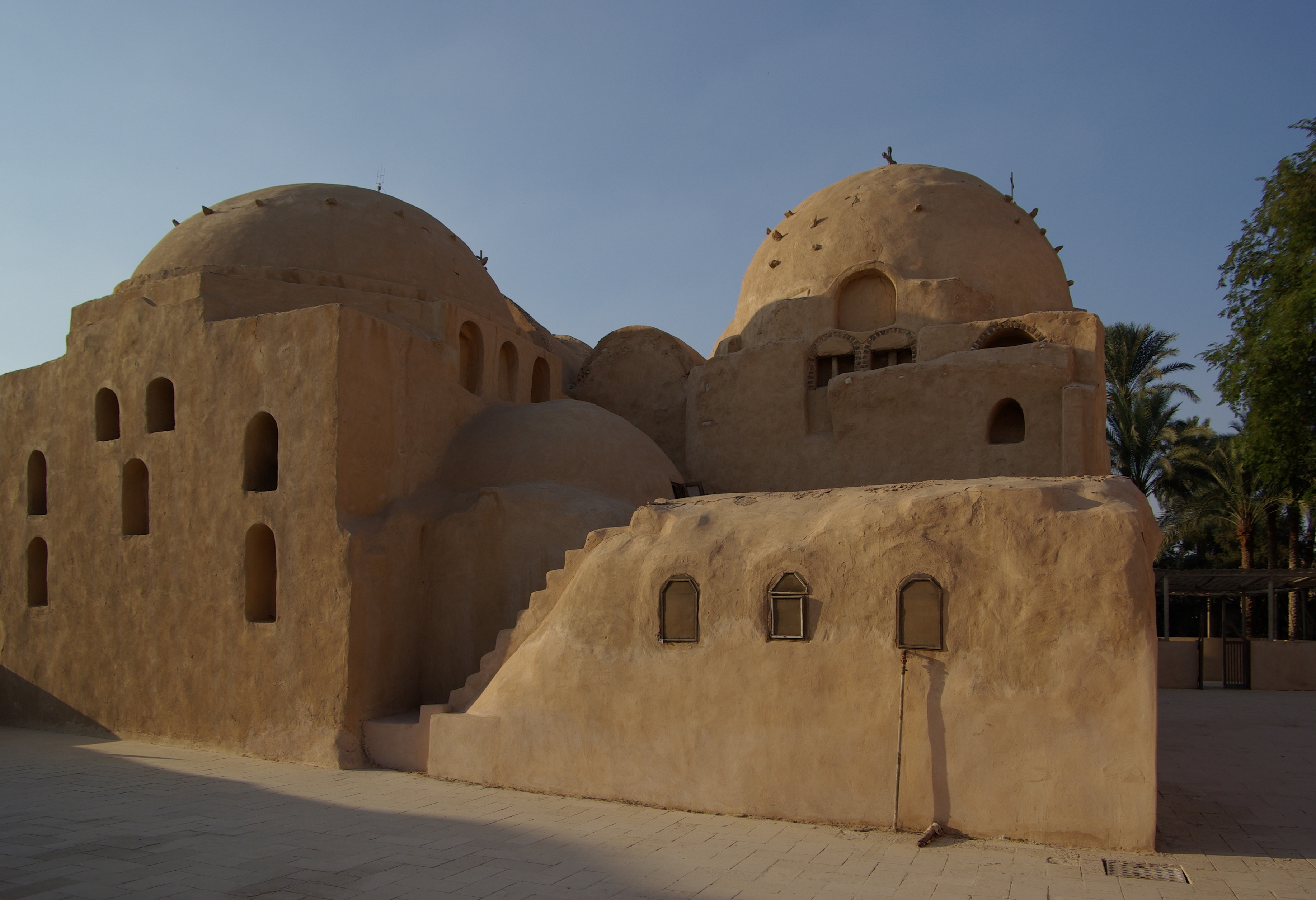 Monastery of Saint Bishoy, Wadi Natrun, Egypt